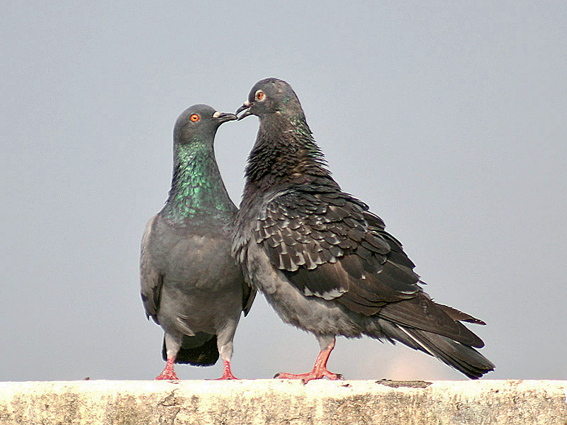 Blue Rock Pigeon Columba livia (feral) - foreplay in Kolkata, West Bengal, India.